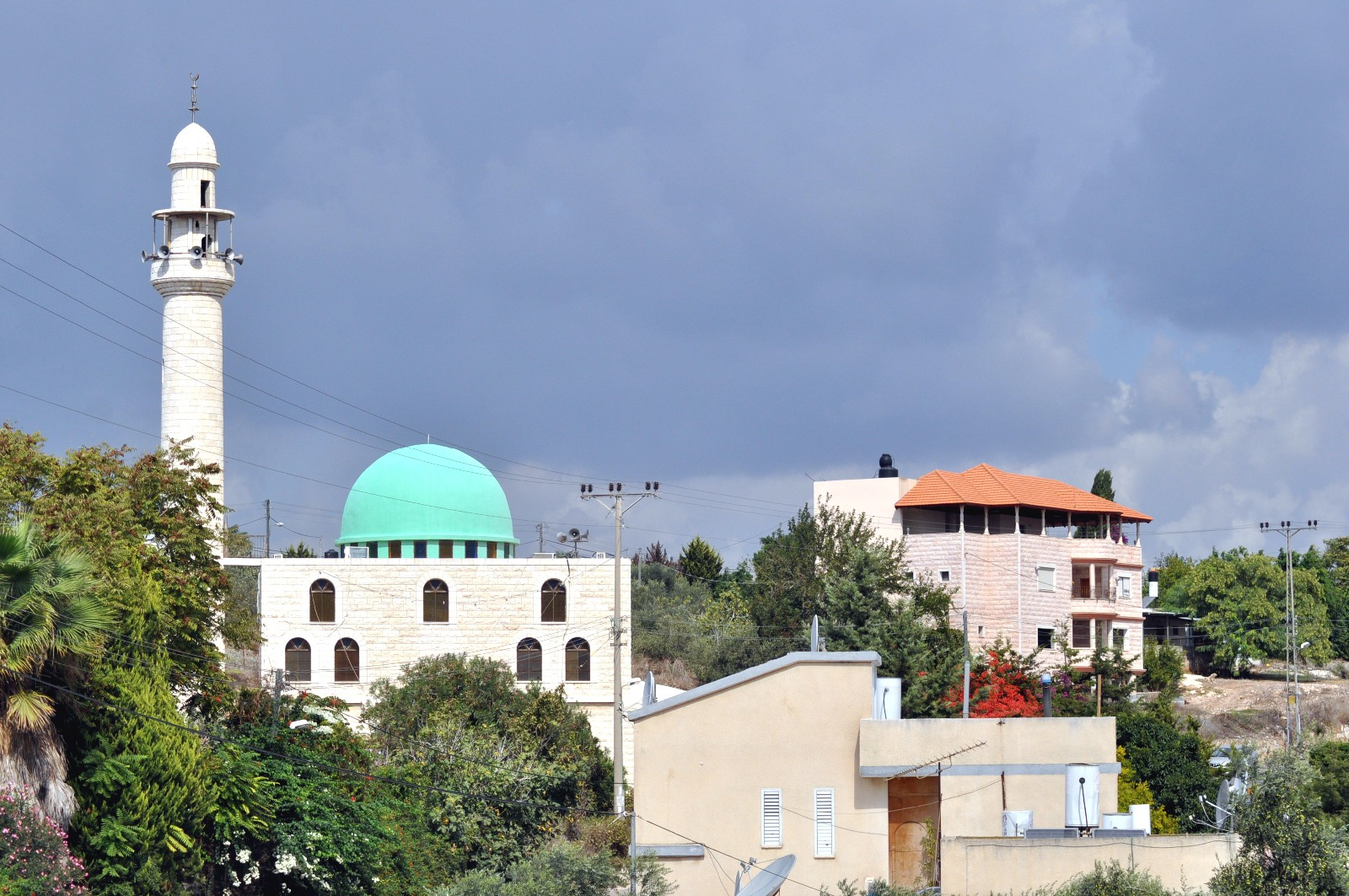 Kfar Halaf, Religion in Israel